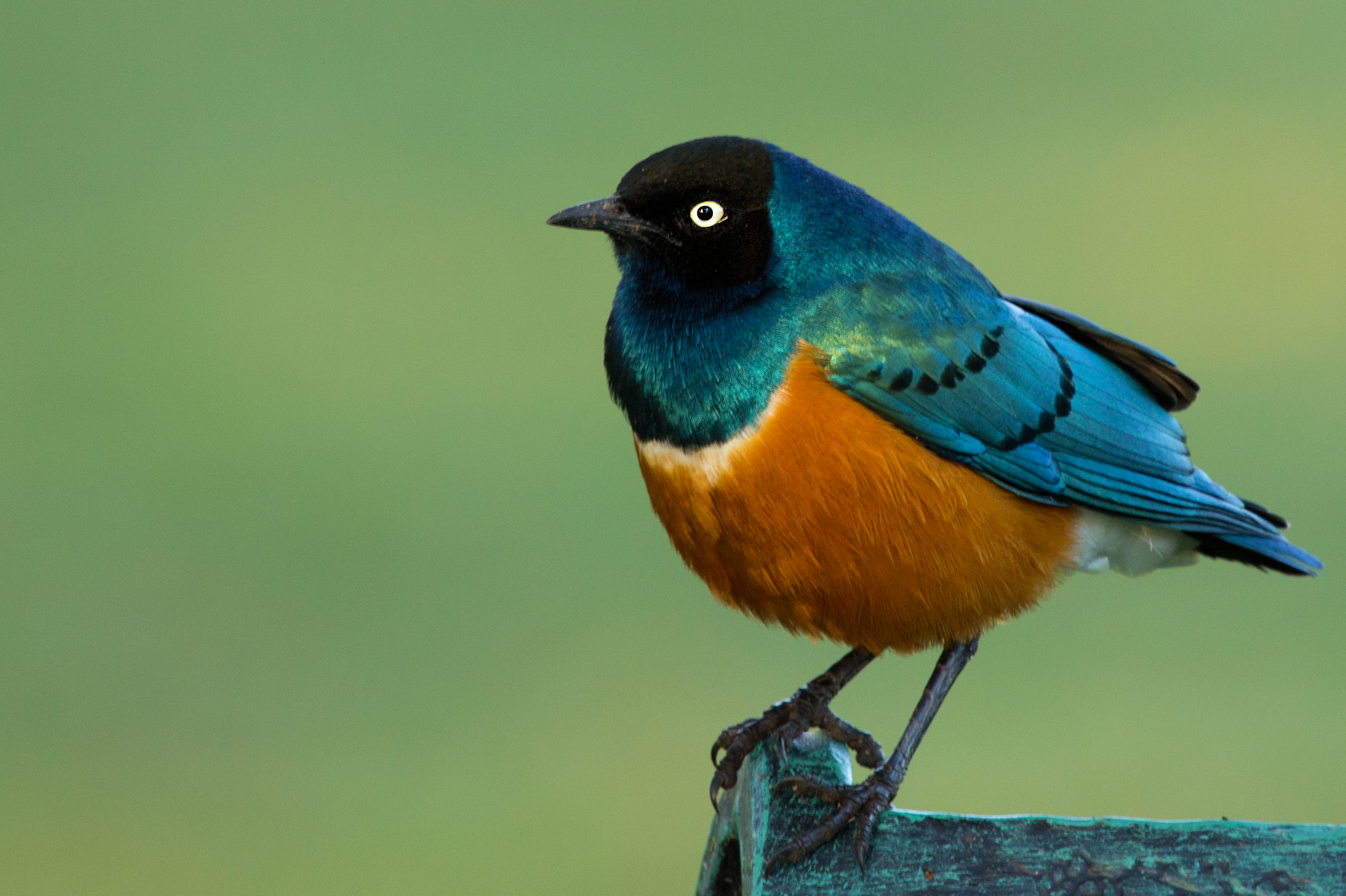 A Superb Starling at Lake Naivasha, Kenya